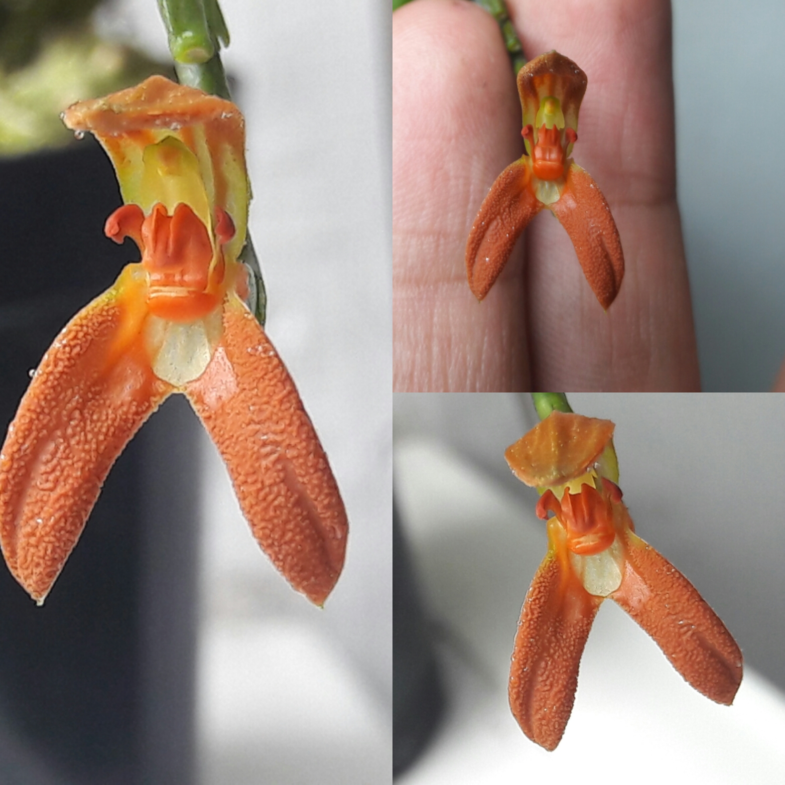 photo of an empusella endotrachys